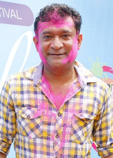 Ken Ghosh at Holi Invasion party.